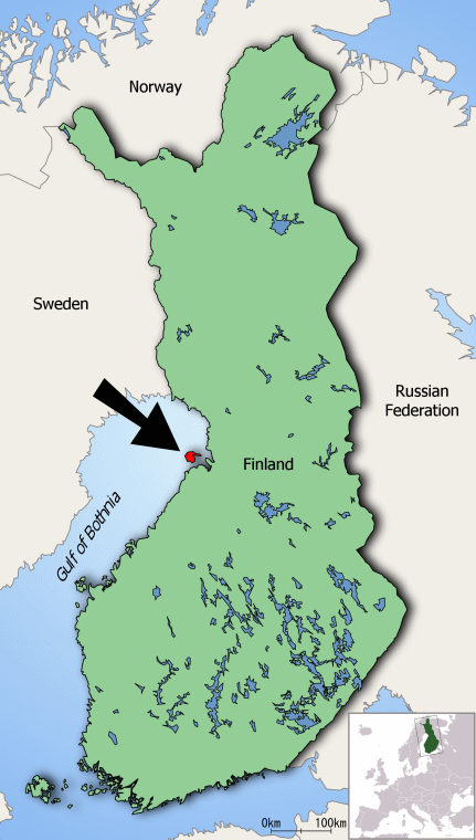 Map of Finland highlighting the location of Hailuoto island. The basic map (Image:Finland empty template.png) used to create this maps has been released into public domain.